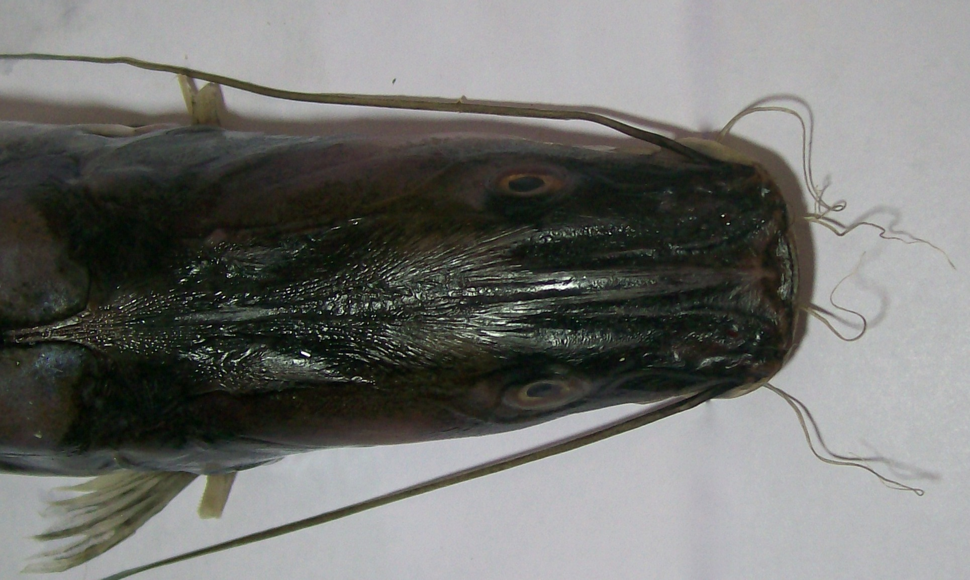 dorsal view of head of Sperata seenghala. note that the pectoral spines have been removed.